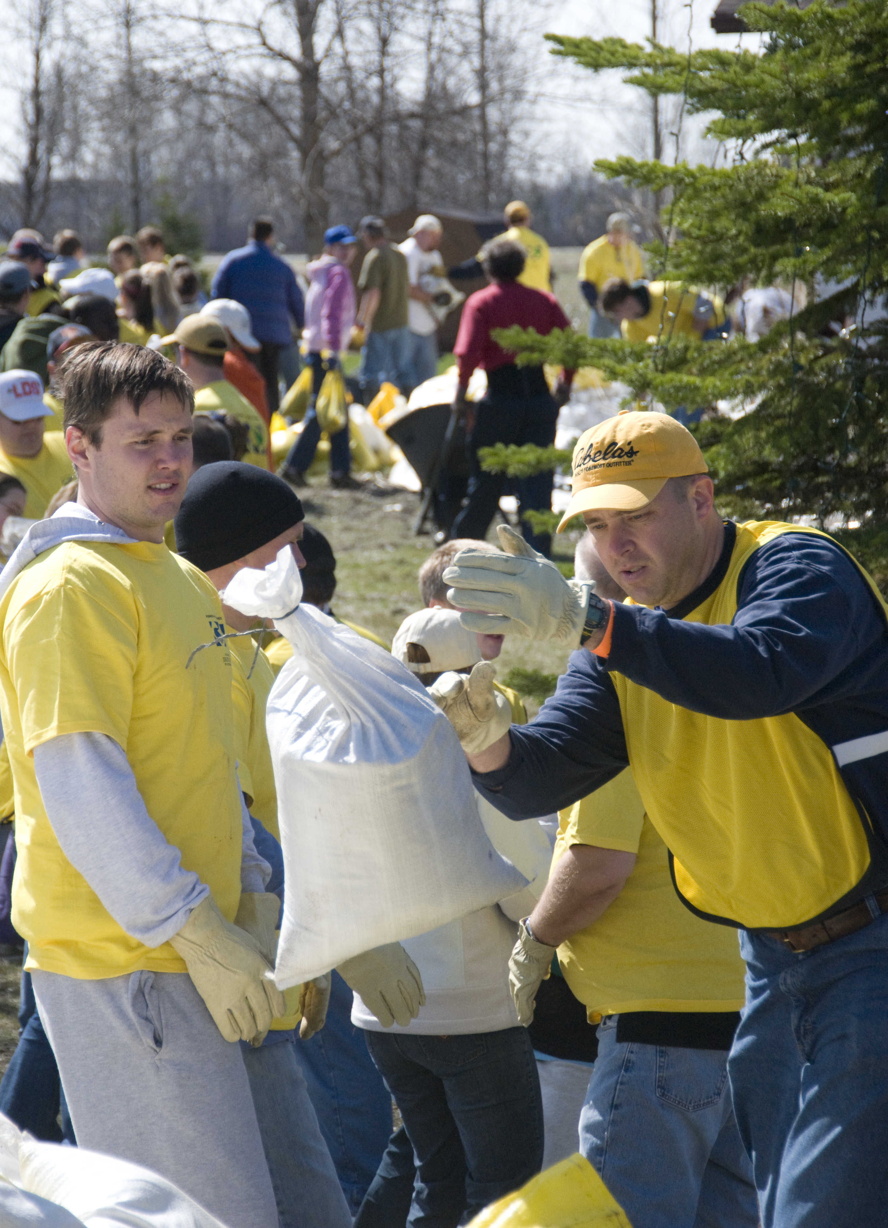 Clay County, MN, April 25, 2009 -- Volunteers from The Church of Jesus Christ of Latter-day Saints put some muscle in to it as they clear thousands of used sand bags from a Clay County property. Hundreds of volunteers descended on Moorhead today from as far away as Minneapolis simply to help 'those in need'. Mike Moore/FEMA